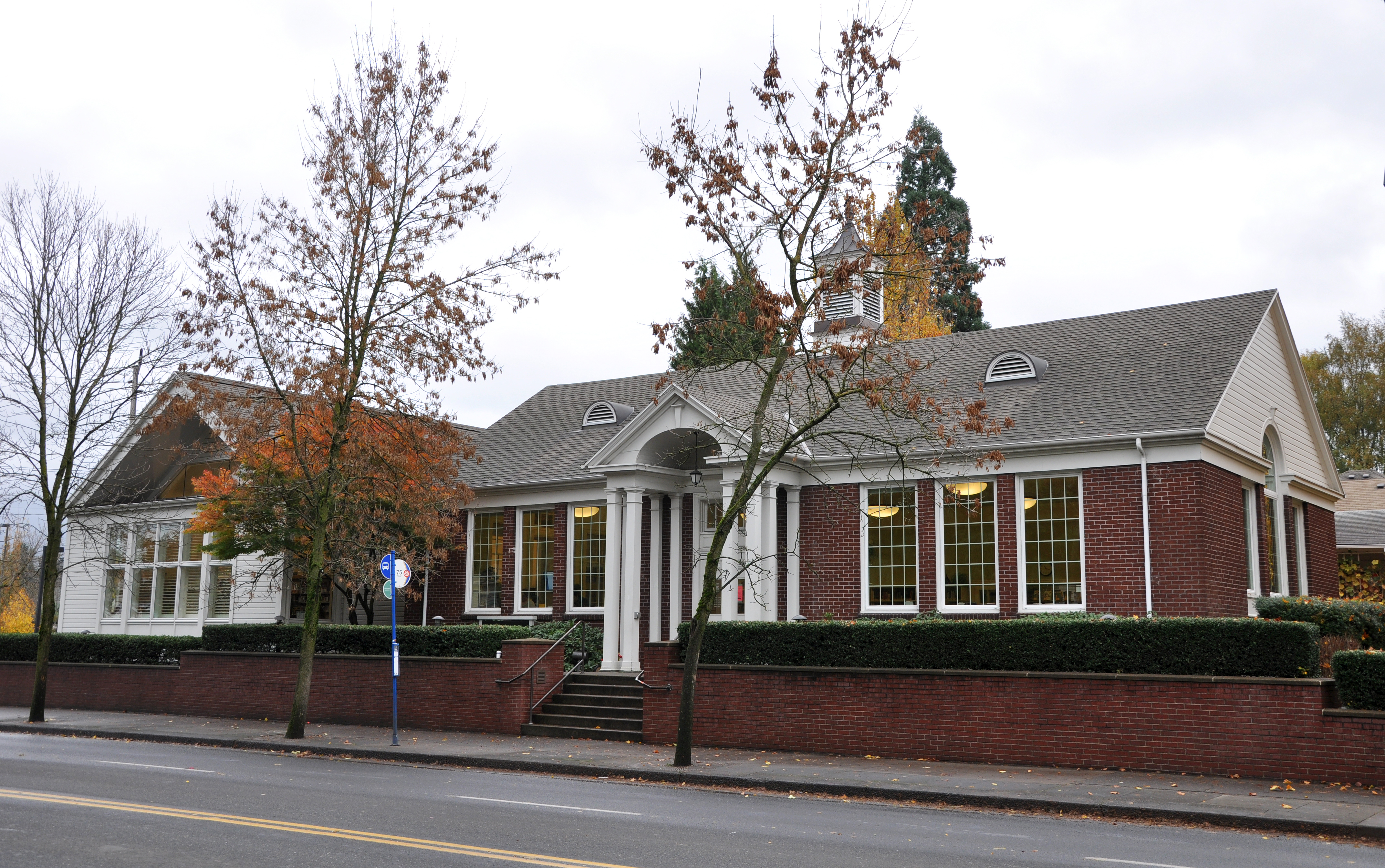 Belmont Library, a branch of the Multnomah County Library in Portland in the U.S. state of Oregon. Original building (brick) to the right, addition (painted white) to the left.